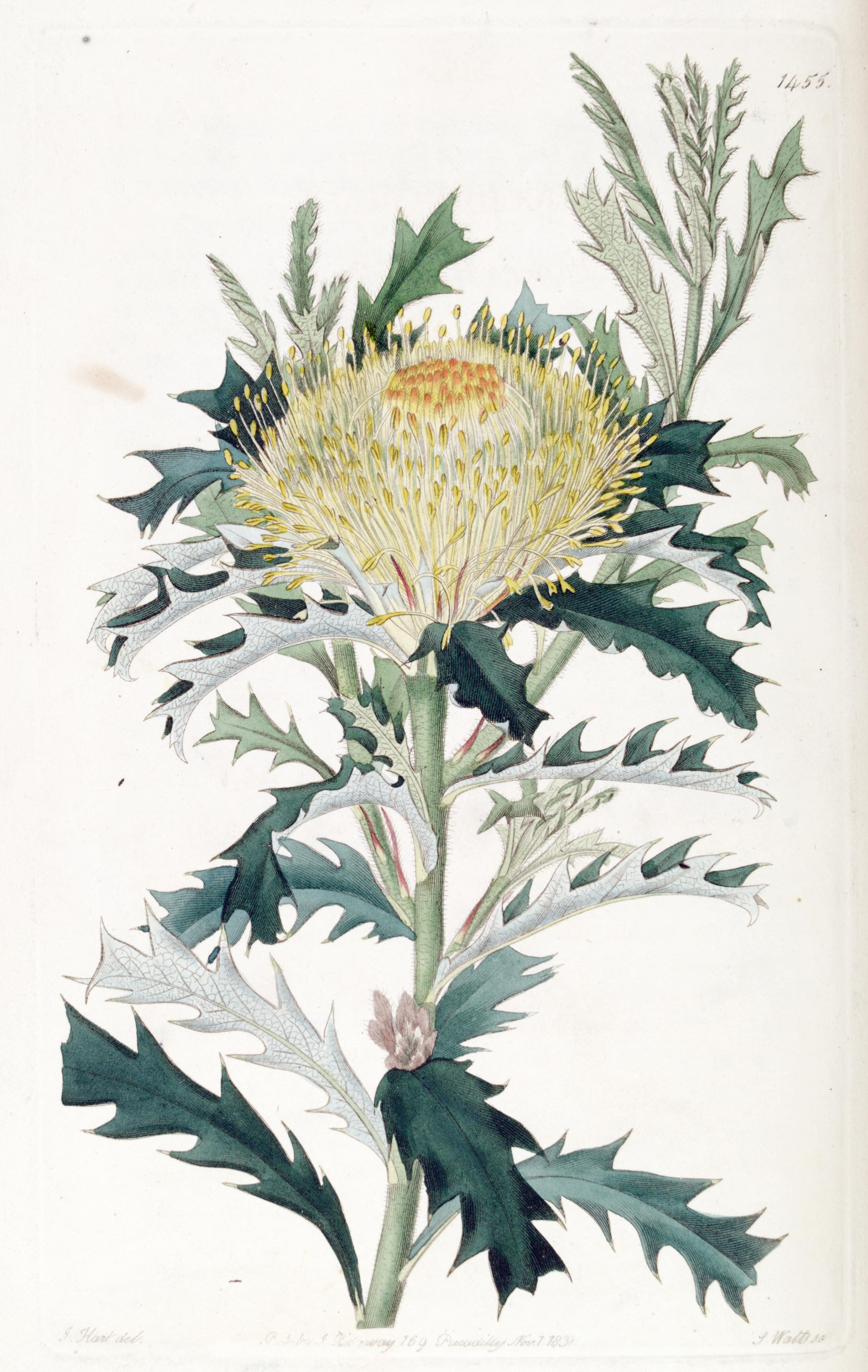 This is Plate 1455 from Volume 17 of Edwards's Botanical Register. The plant depicted is Dryandra falcata (now Banksia falcata.